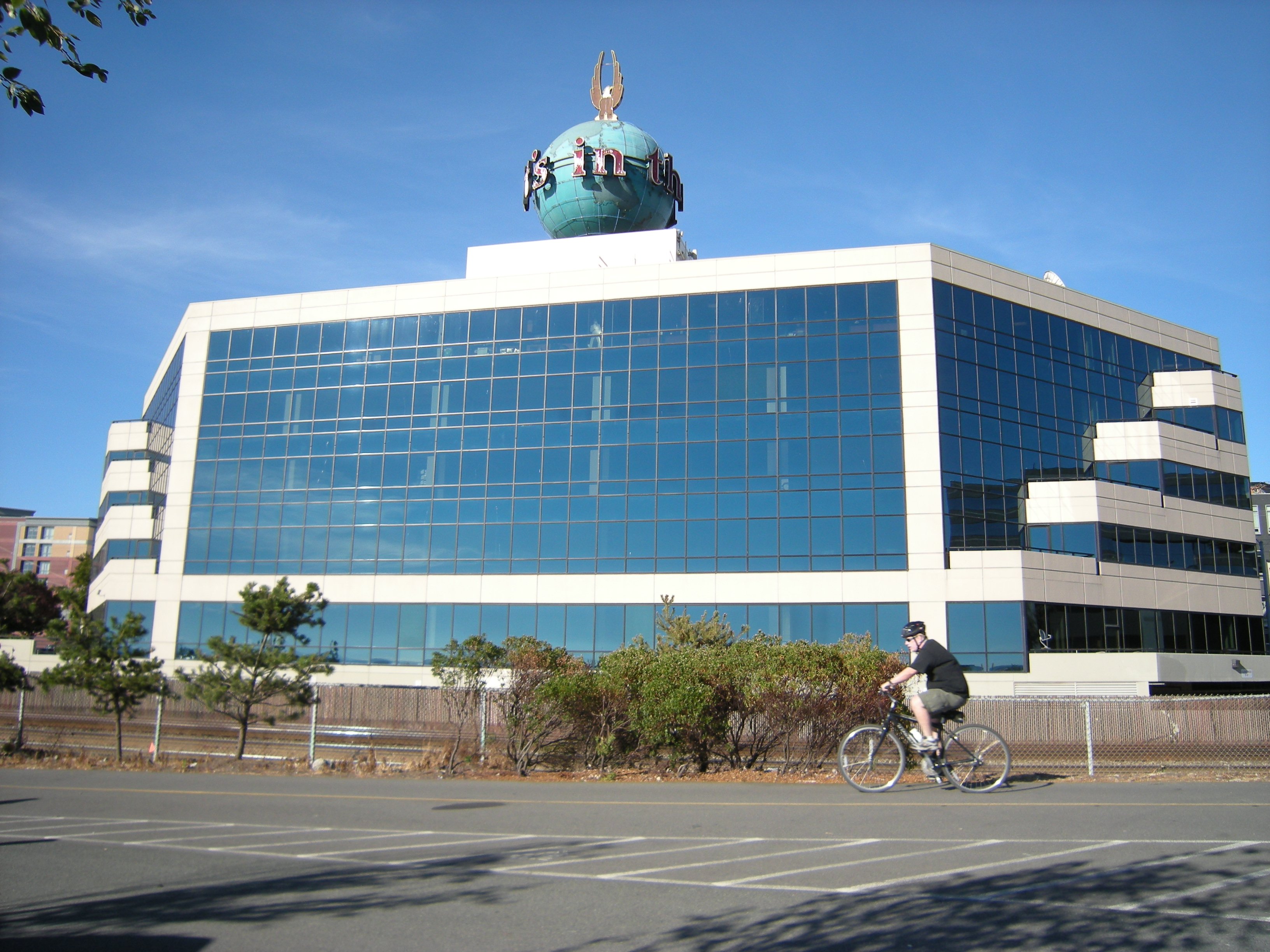 Seattle Post-Intelligencer building, seen from Myrtle Edwards Park.